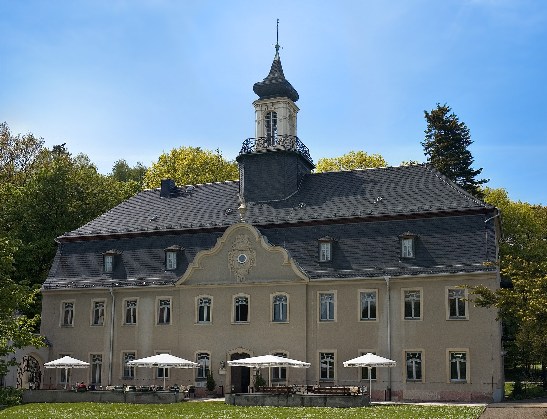 This image shows the castle in Rabenstein (Saxony, Germany).